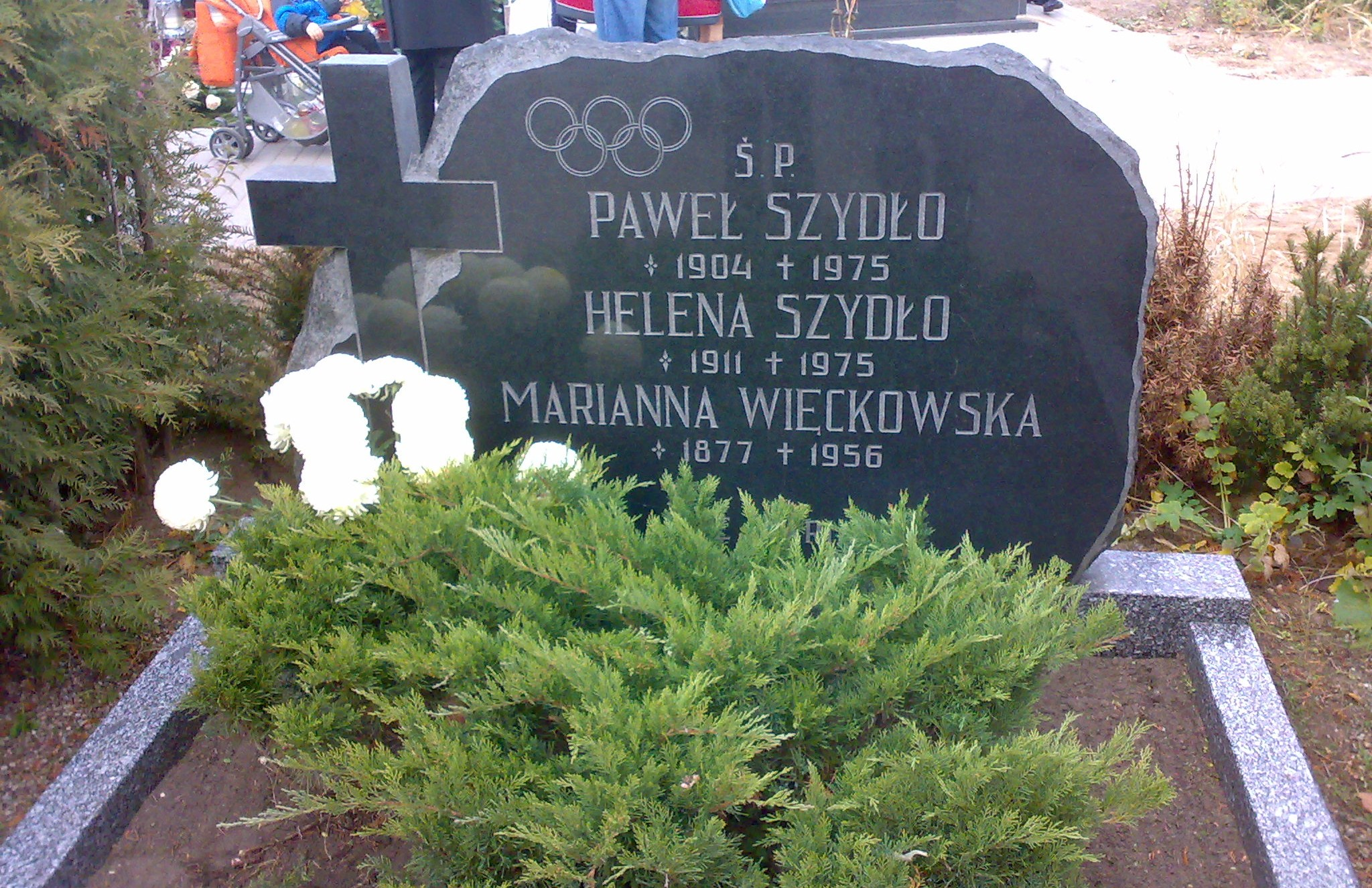 Tomb of Pawel Szydlo (boxer) in Junikowo-Nekropoly in Poznan.